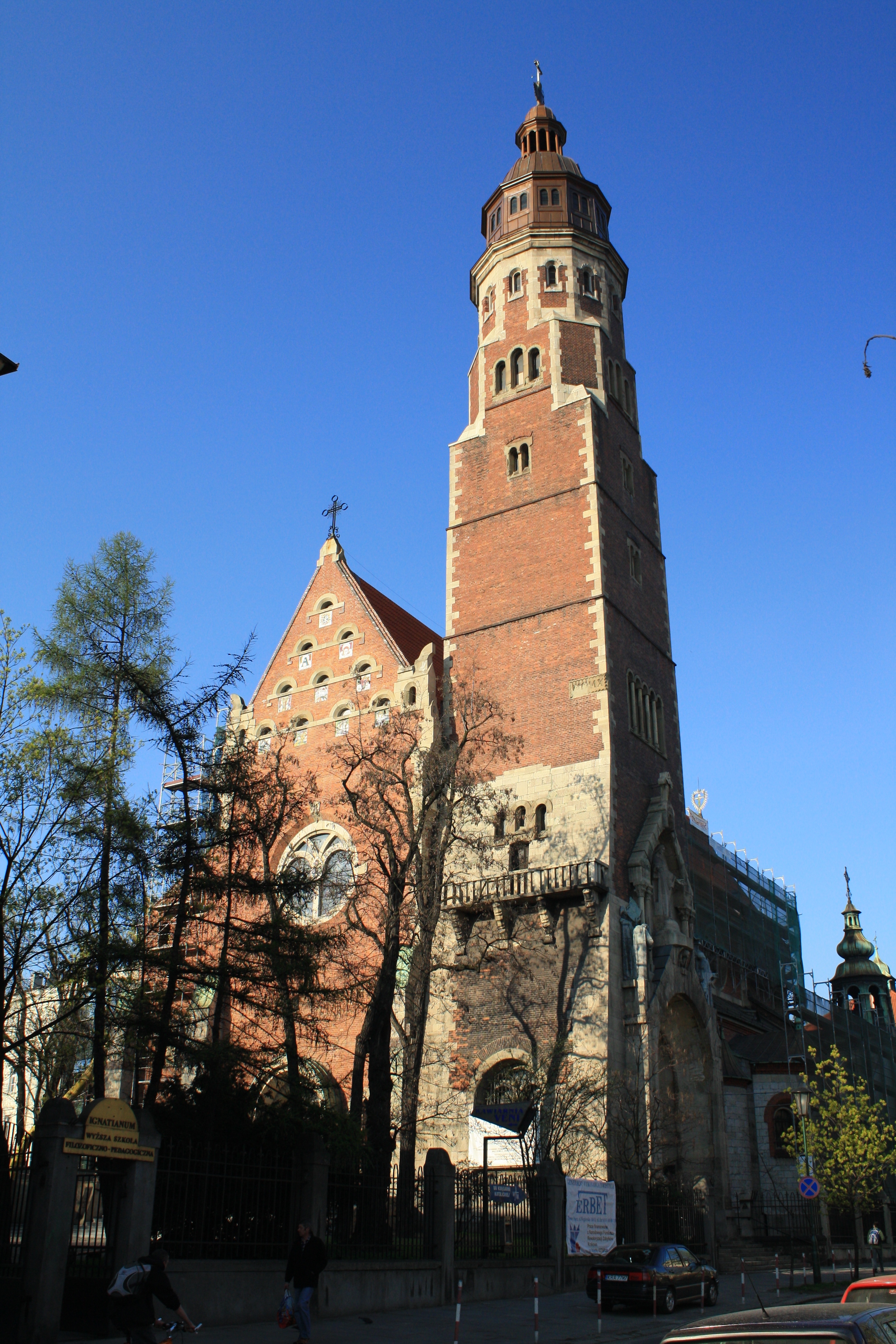 Basilica of the Sacred Heart of Jesus